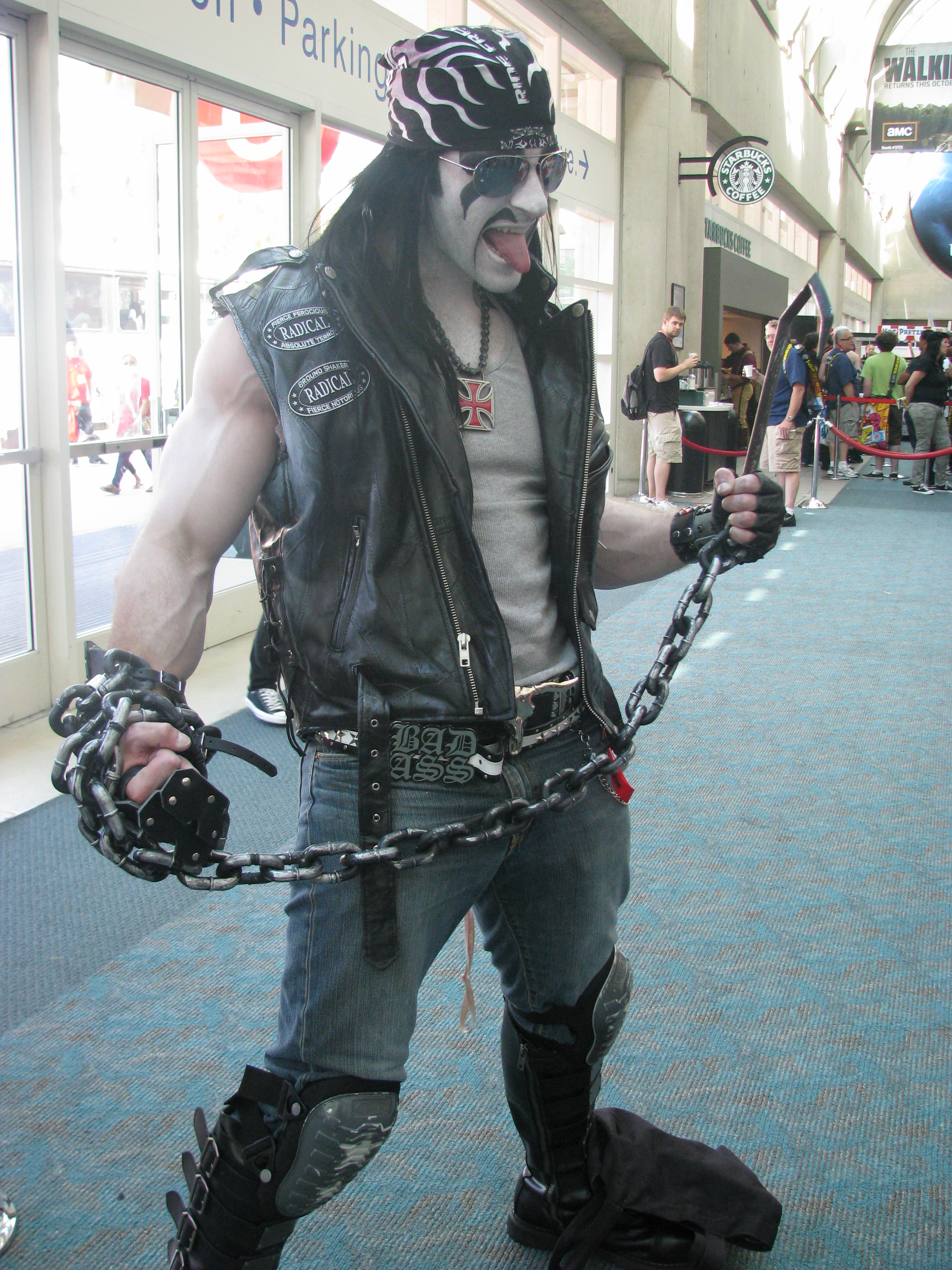 Cosplay at San Diego Comic Con (SDCC) 2011.